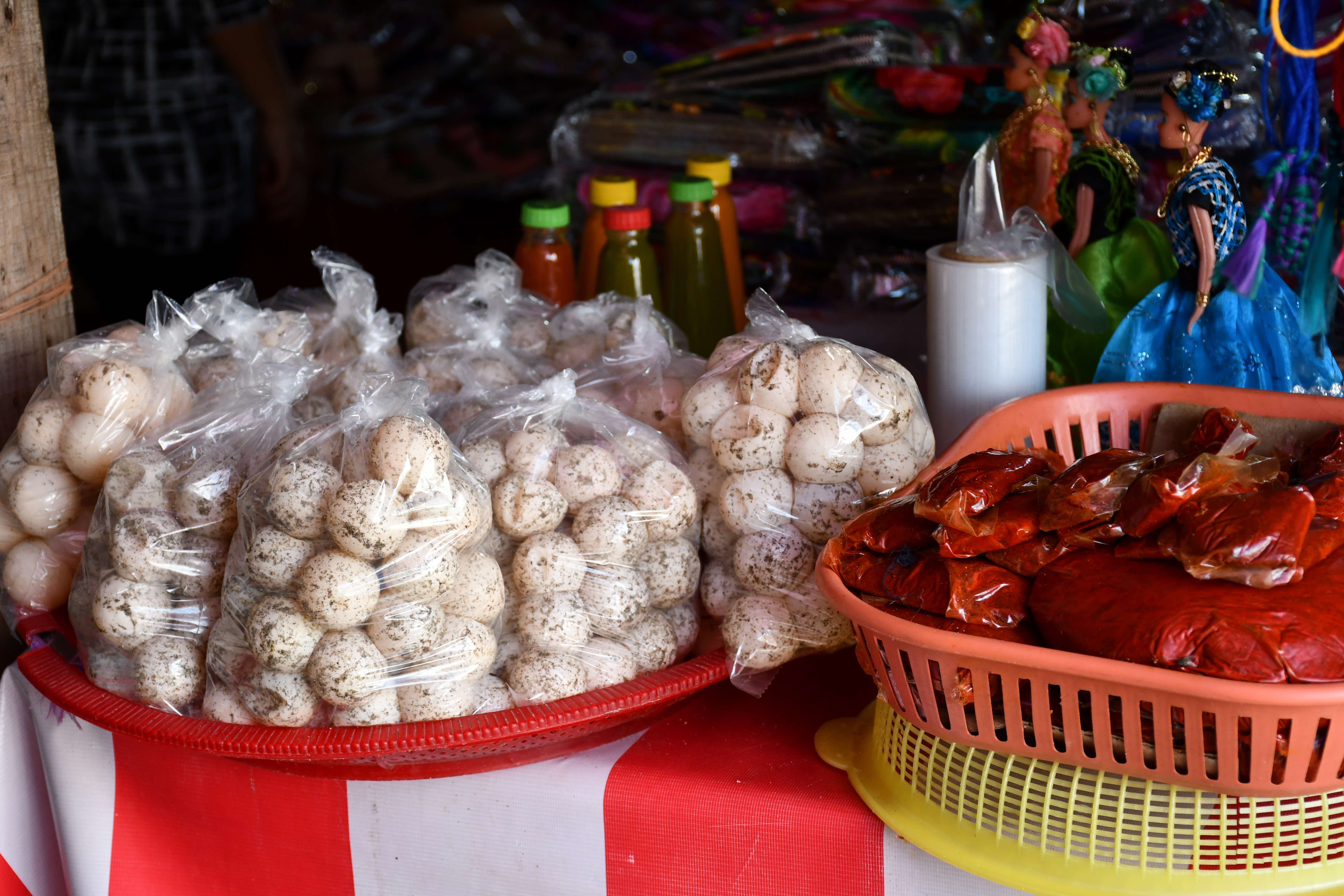 Sea turtle's eggs at Juchitán de Zaragoza's market (Oaxaca, Mexico).